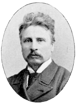 Image scanned from the book "Svenskt Porträttgalleri XX - Arkitekter, Bildhuggare, Målare m.fl. " ("Swedish Portrait Gallery XX - Architects, Sculptors, Painters, ") published 1901